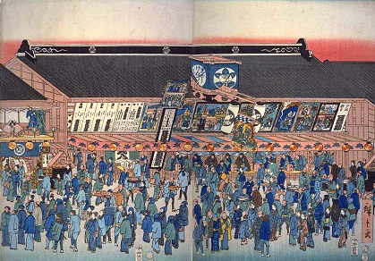 Saruwaka-chō San-shibai no Zu (Ichimura-za) from Tōto Hanei no Zu by Hiroshige Utagawa